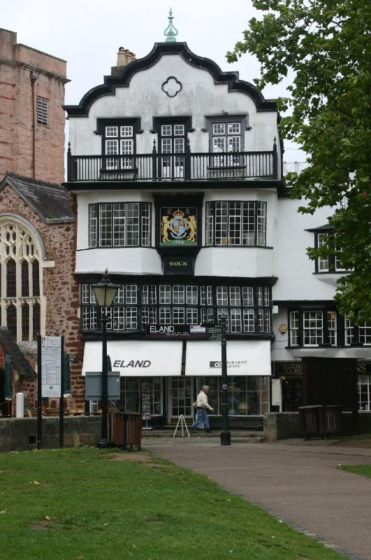 Situated in the corner of Cathedrel Close in Exter, Mols Coffee House was owned by John Gendall and several female owners